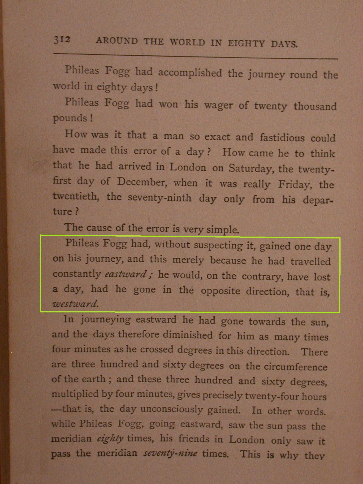 Verne Denouement as cited from Around the World in Eighty Days, Jules Verne; Philadelphia -- Porter & Coates, 1873 -- ref.